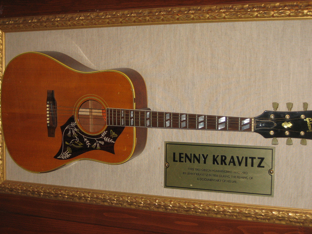 Guitar of Lenny Kravitz. Picture taken in Hard Rock Cafe, San Francisco, California.